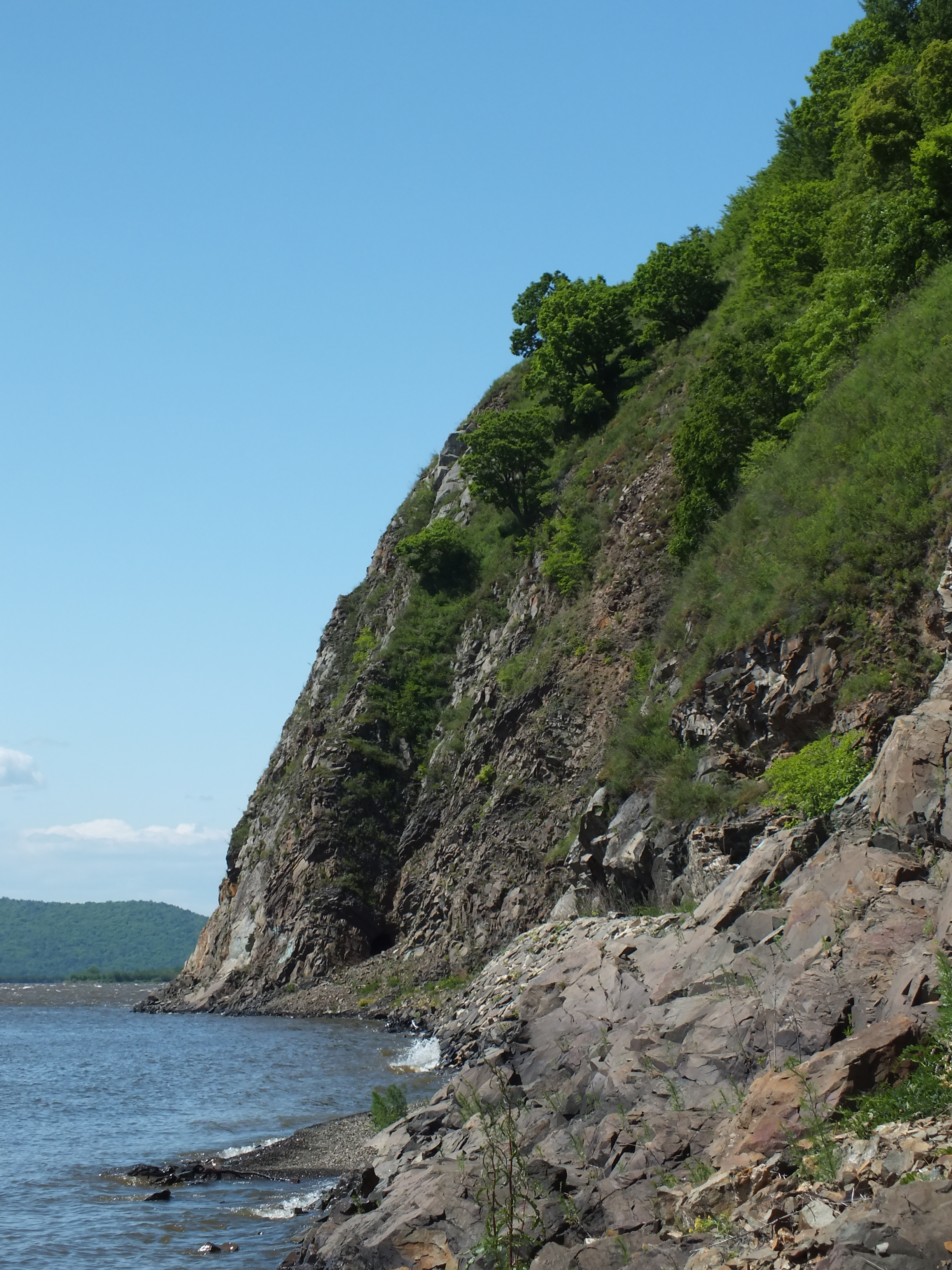 Malmyzh Nanayskiy rayon